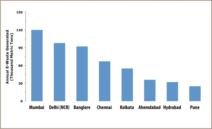 Graph shows the amont of e waste generated in specific cities in India